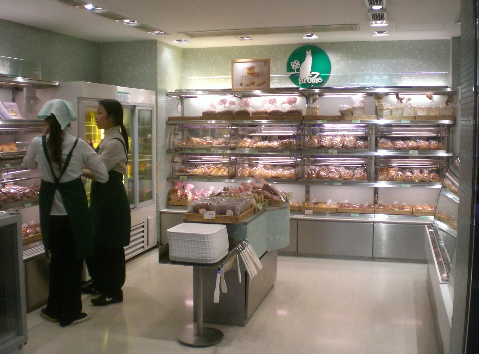 尖沙咀天星碼頭